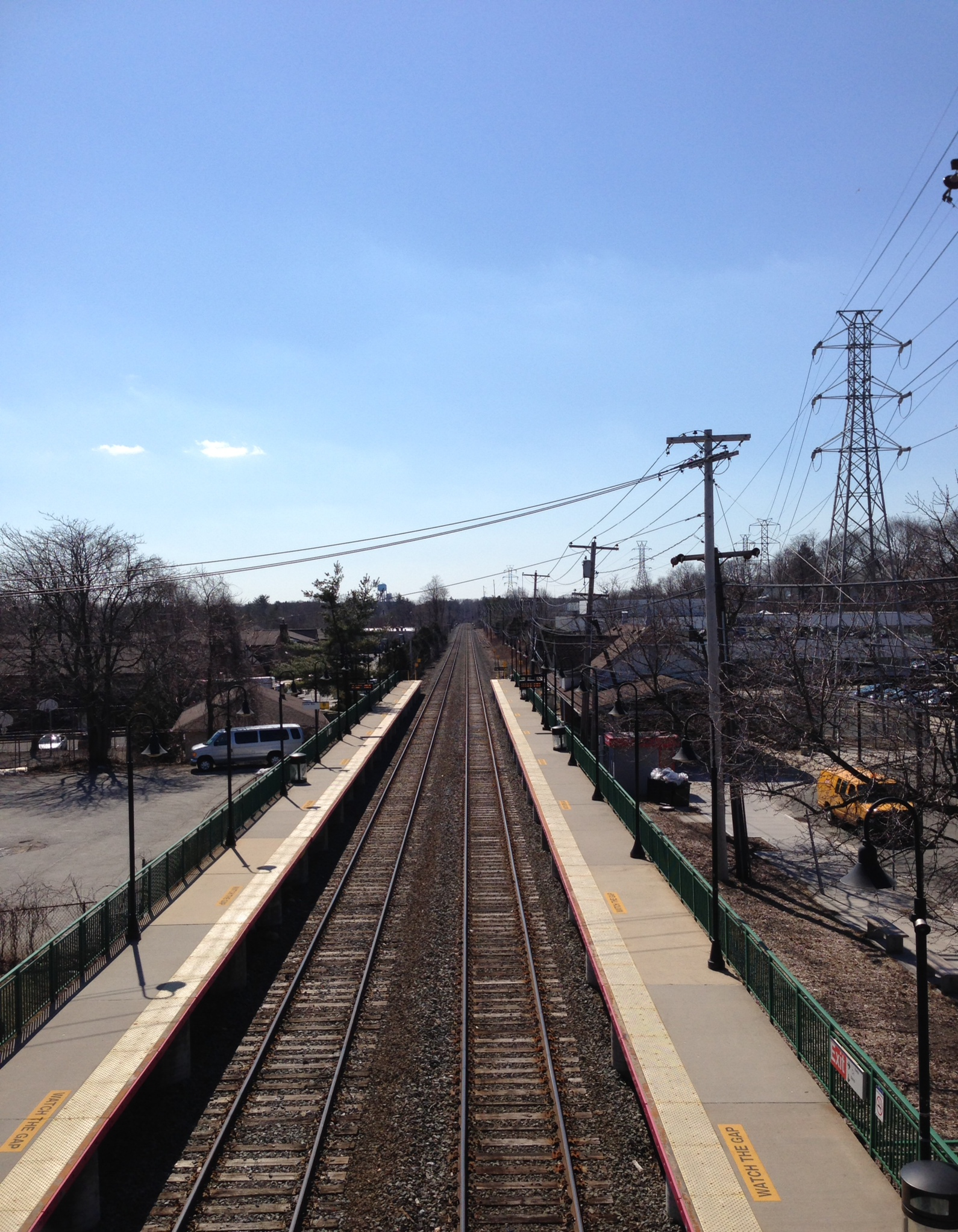 View from the passenger overpass at Roslyn Station looking South towards Jamaica.